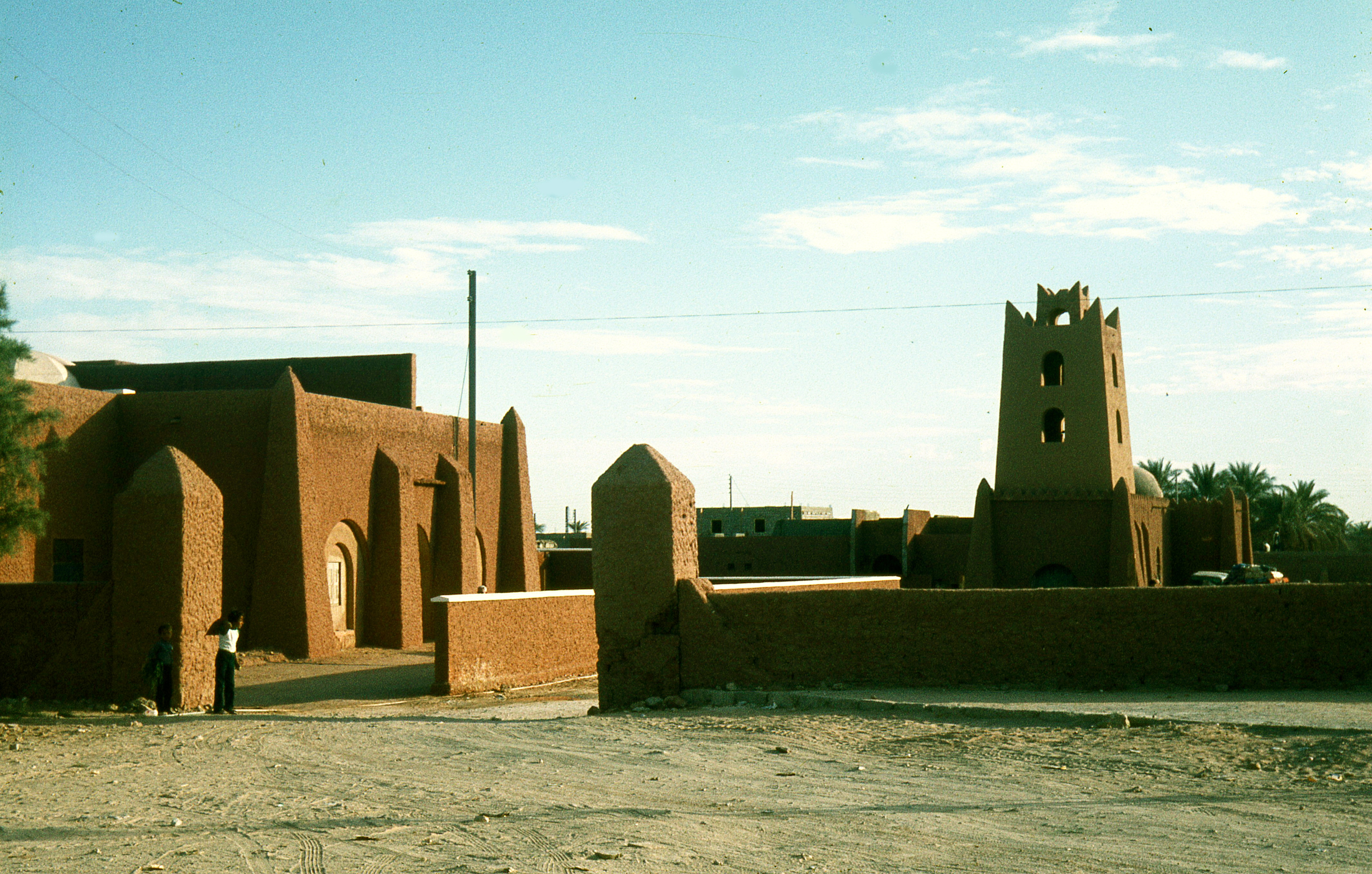 Raw ground construction (Adrar, Algeria)